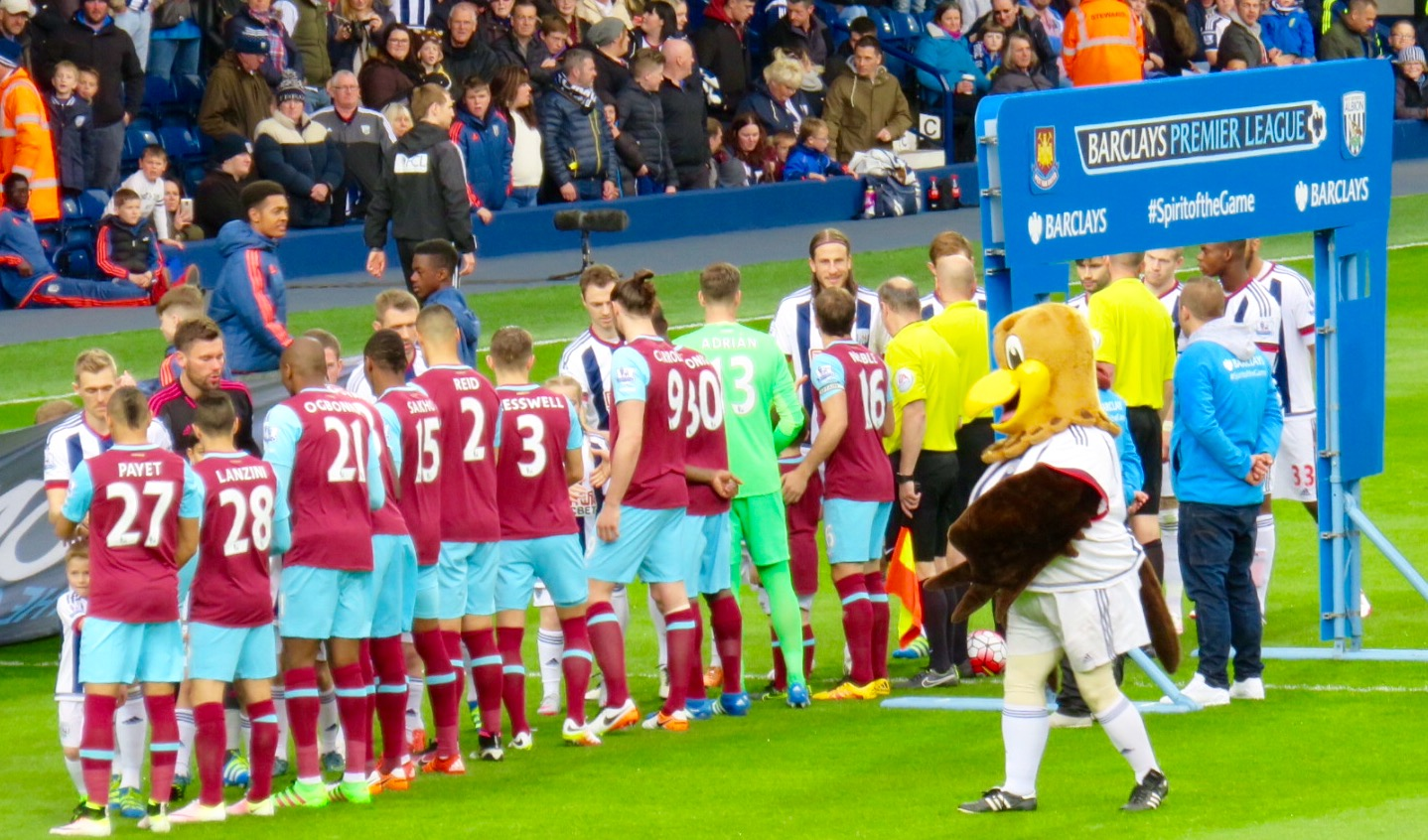 The players of West Bromwich Albion and West Ham United line-up before their Premier League game at The Hawthorns.